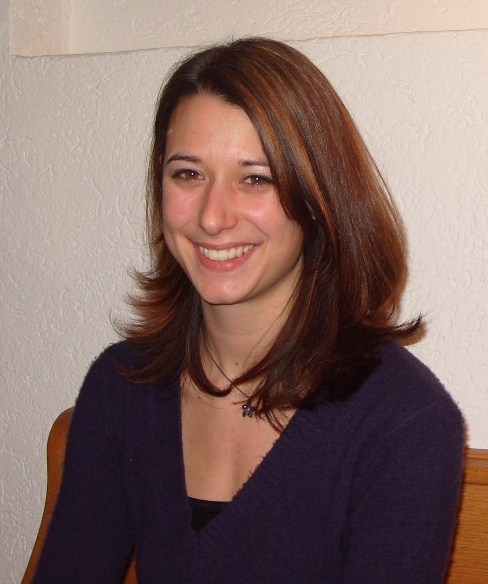 Annina Braunmiller during an interview in Munich, Germany